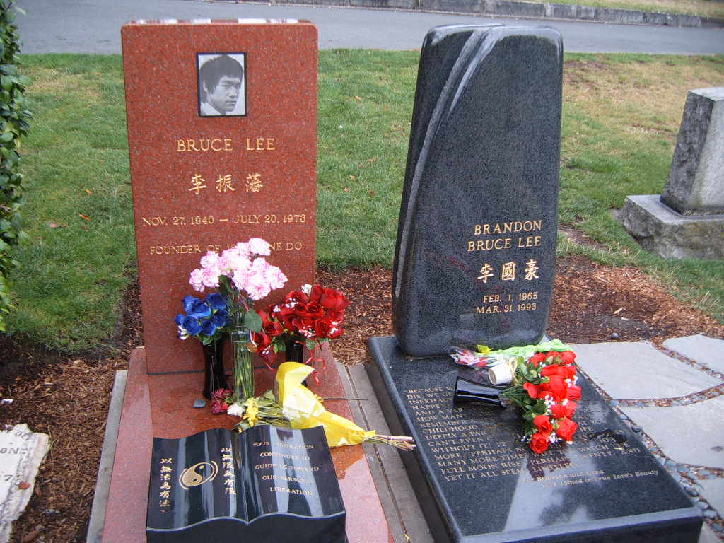 Bruce Lee's headstone along with his son's, Brandon Lee, who died from a bullet firing accidentally during the filming of the movie The Crow.